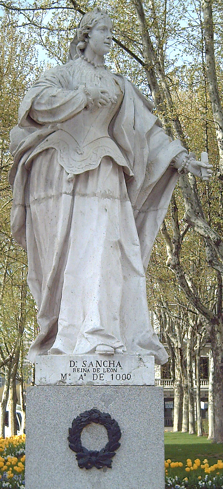 Depicted person: Queen Sancha of León (1013–1067)